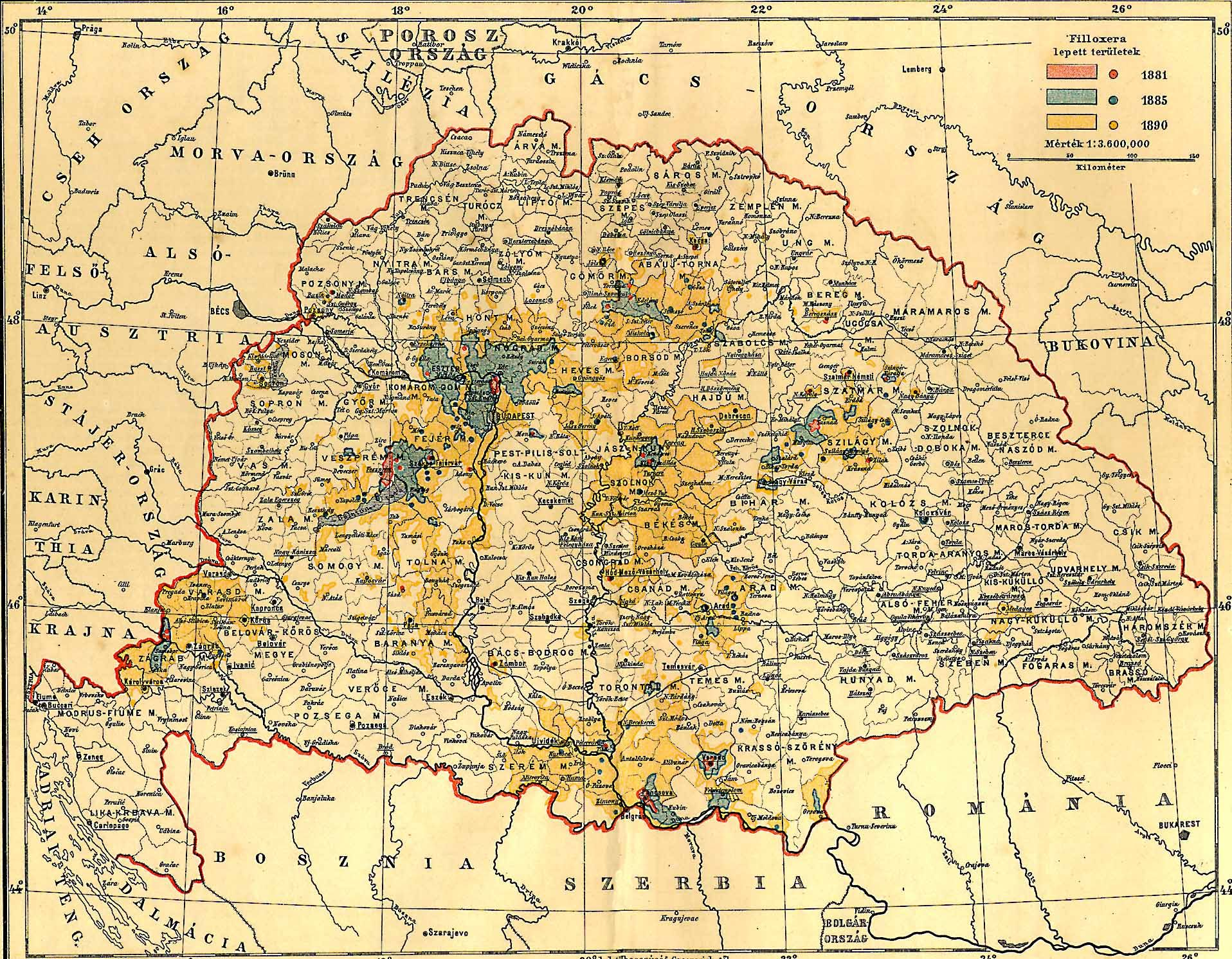 Hungary in 1890